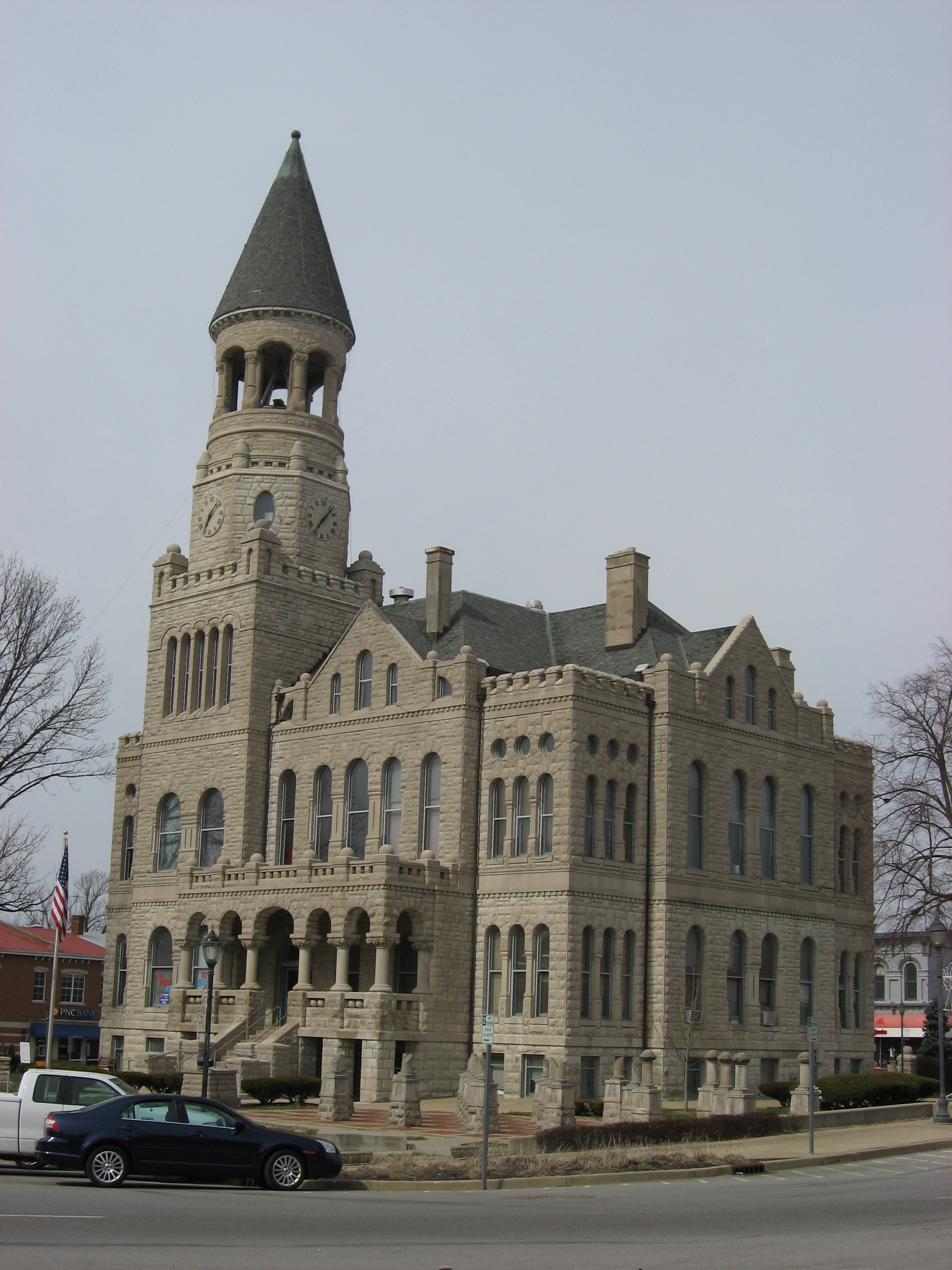 Front and eastern side of the Washington County Courthouse, located at the center of the public square in Salem, Indiana, United States. Built in 1886, it is listed on the National Register of Historic Places, and it is part of a Register-listed historic district, the Salem Downtown Historic District.